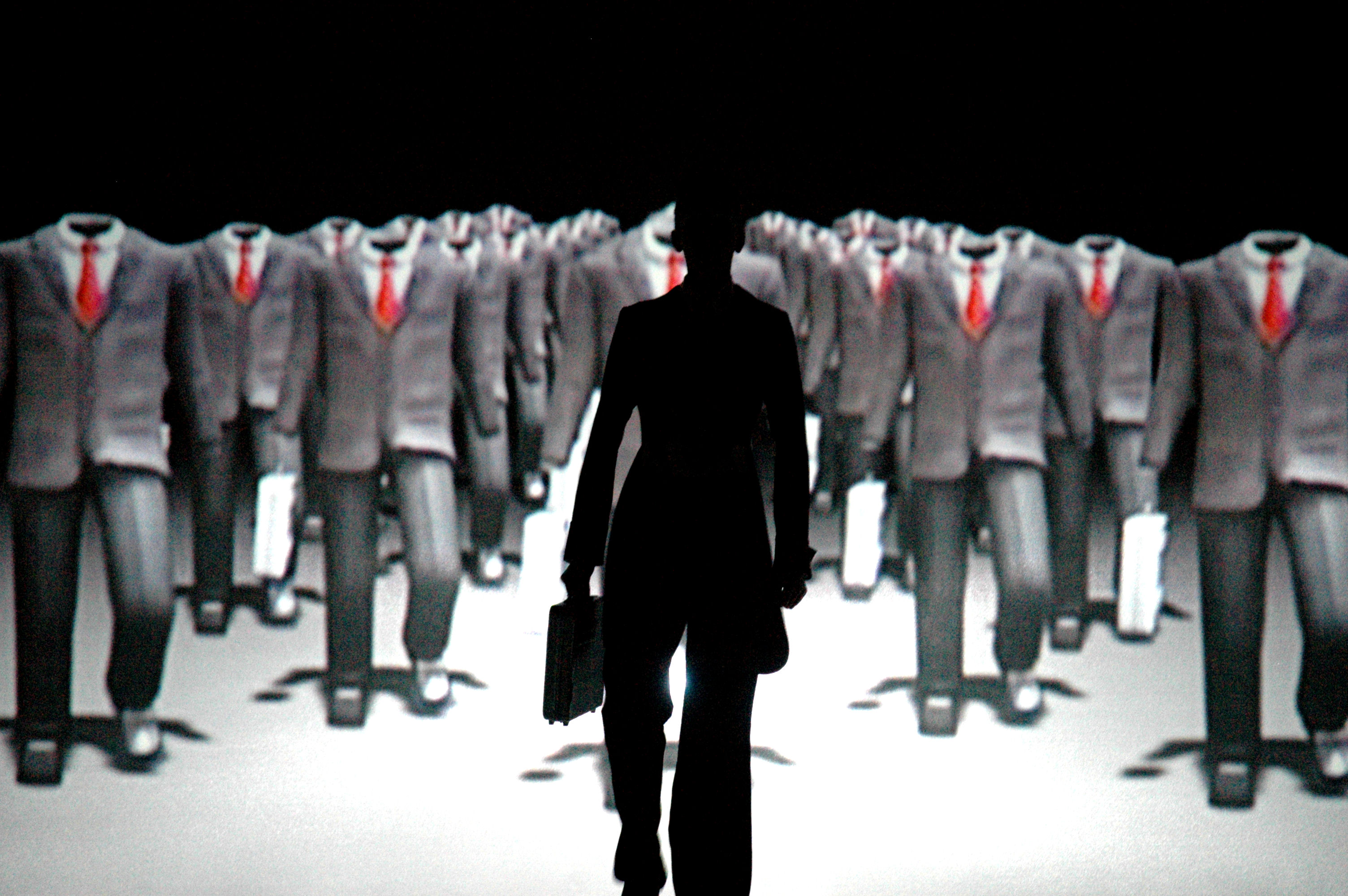 UP WAKE, is a humane and tragic comedy following ZERO, a toon character, throughout his musical day of dream and wake. A bare stage and an actor. The rest is purely suggested and perfectly synchronized to sound effects, CGI projected on all four surfaces of the stage, and a rich, exhilarating soundtrack.